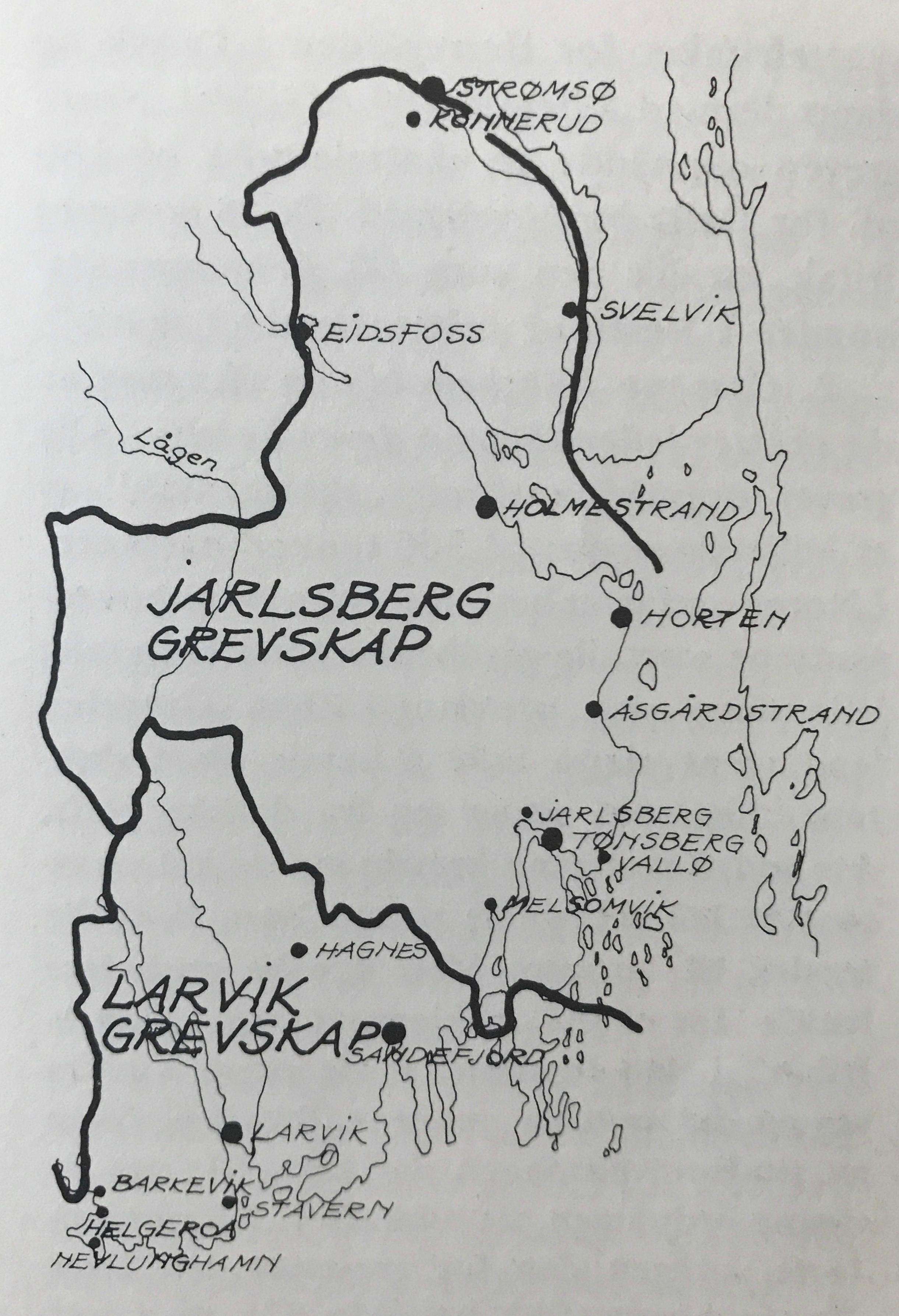 A map showing the borders of the former Norwegian counties of Laurvigen and Jarlsberg. These two counties were the only traditional counties in Norway ruled by a count.